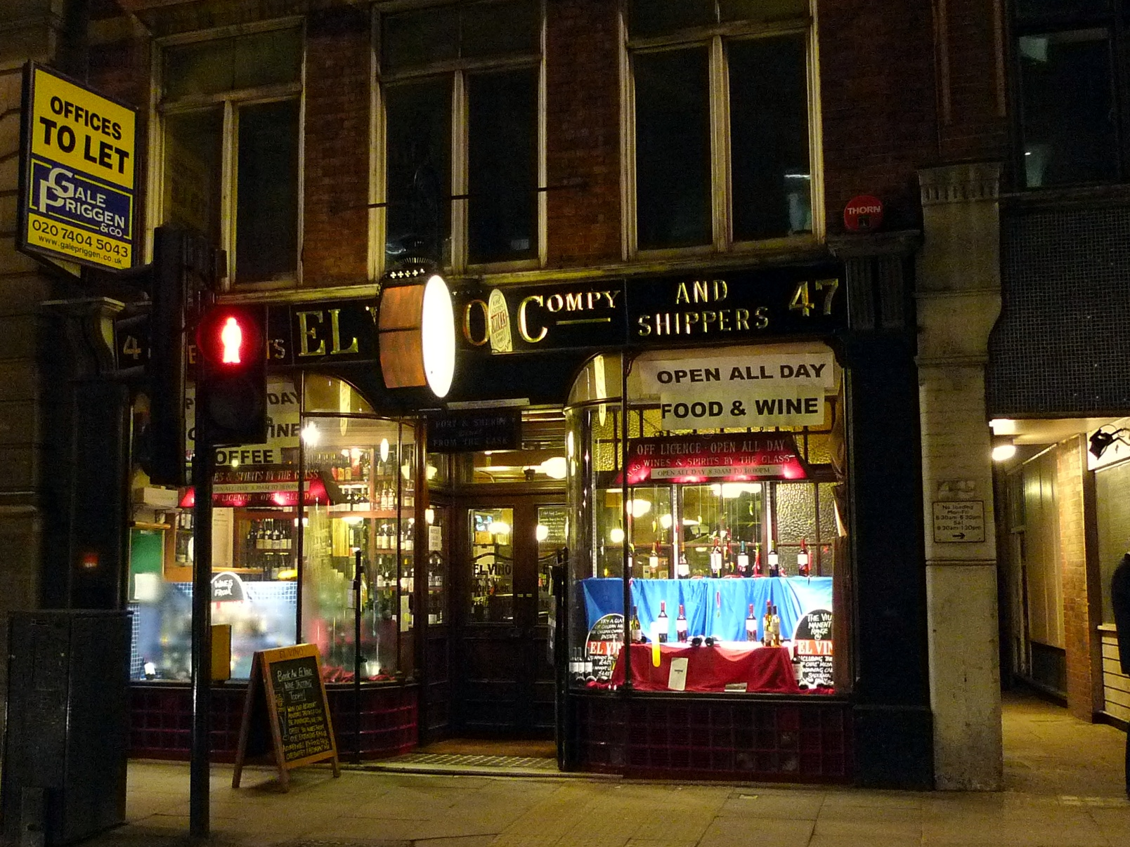 An old school wine bar (part of a small chain) once heavily frequented by local journalists. Address: 47 Fleet Street. Owner: El Vino ( website ). Links: Fancyapint